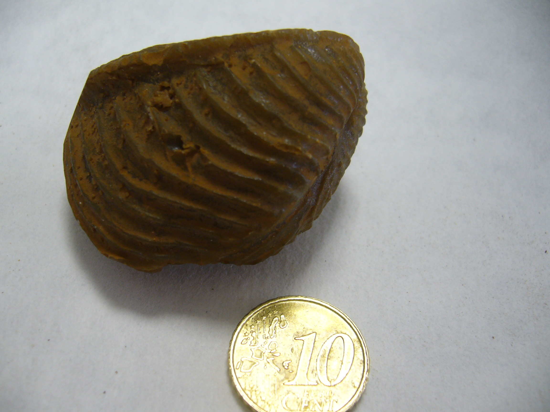 Trigonia sp. fossil (Mesozoic) in a laboratory of practices of the Faculty of Sciences of the University of Corunna, Spain.